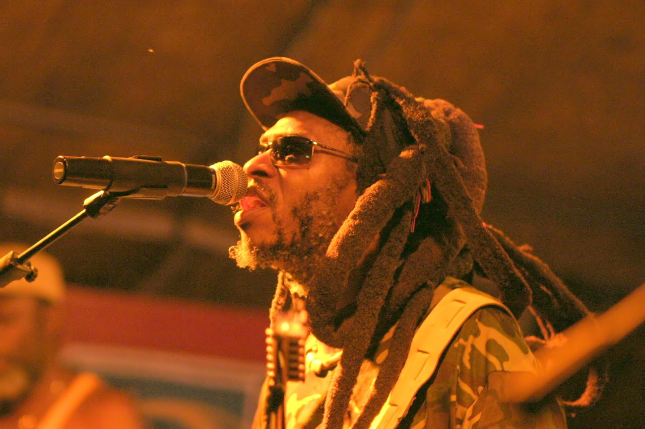 David Hinds of the reggae band Steel Pulse, in concert in Rohan, France in 2006.